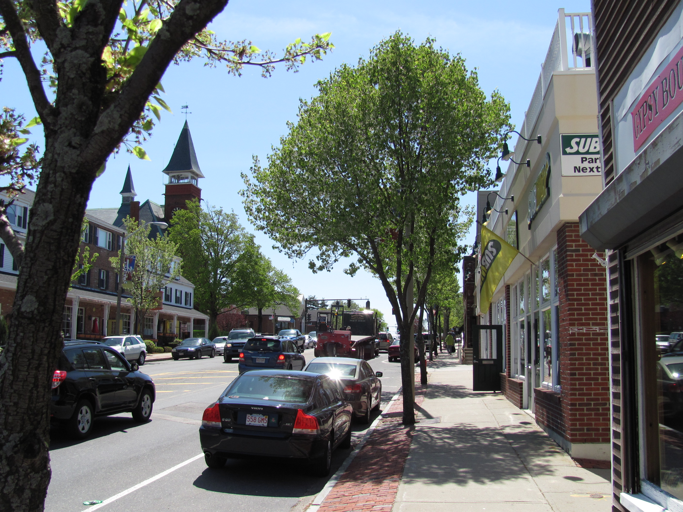 Main Street looking south, Walpole Massachusetts, April 2010